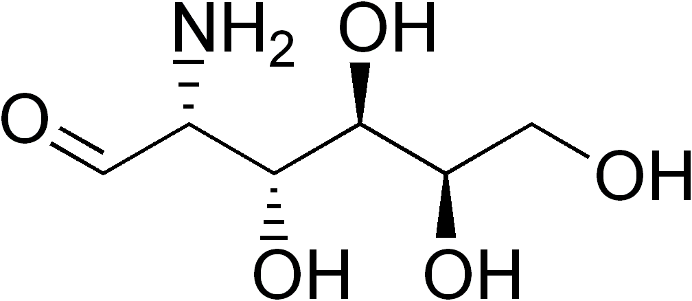 chemical structure of galactosamine